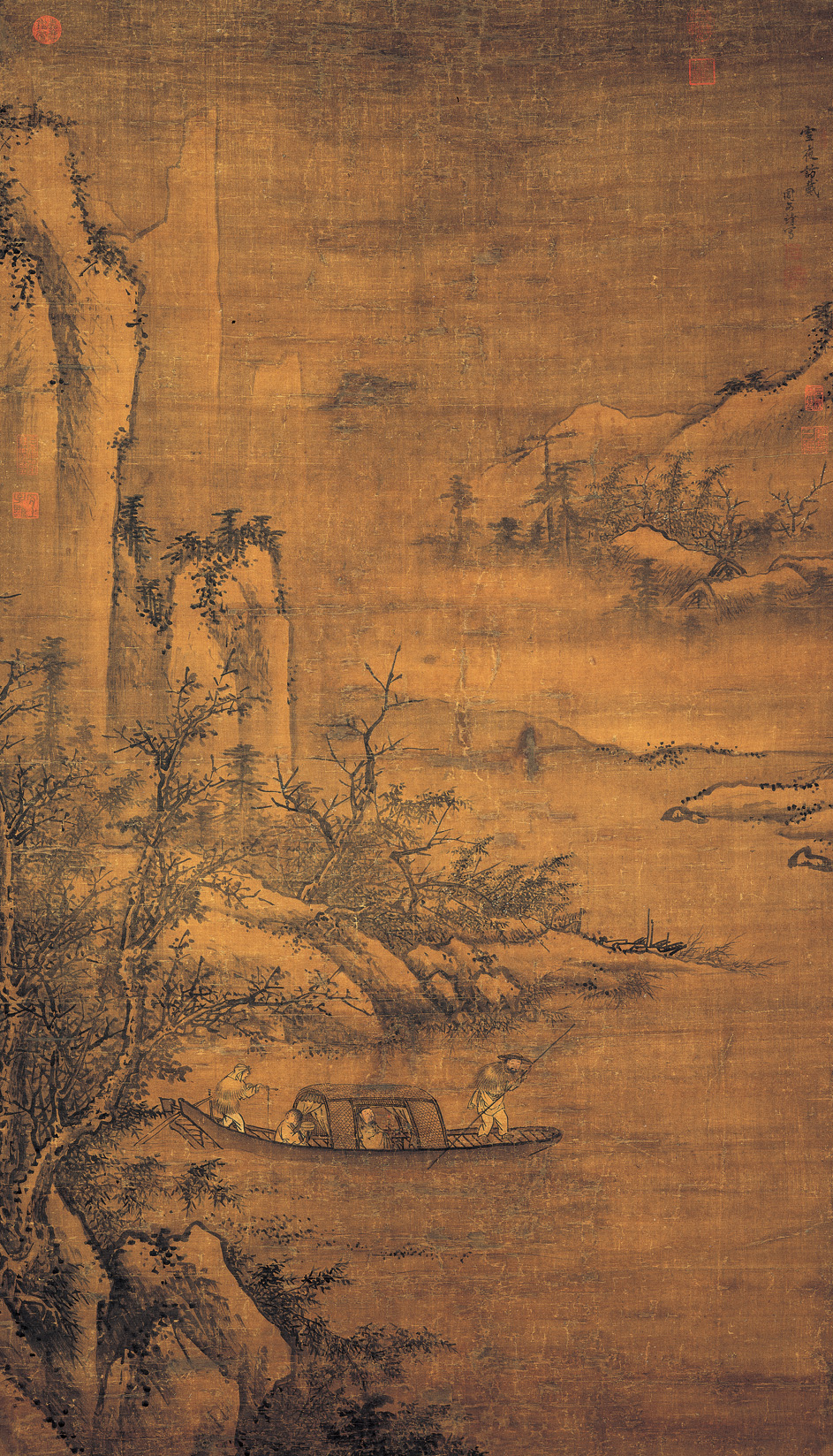 Visiting Dai Kui on a Snowy Night, hanging scroll, Color on silk, 161.5 x 93.9 cm. Located at the National Palace Museum, Taibei. The painting is from the story of the Eastern Jin calligrapher Wang Xizhi (王徽之 - The son of Wang Xizhi (王羲之) visiting Dai Kui on a snowy night. The story is recorded in 《世說新語》.